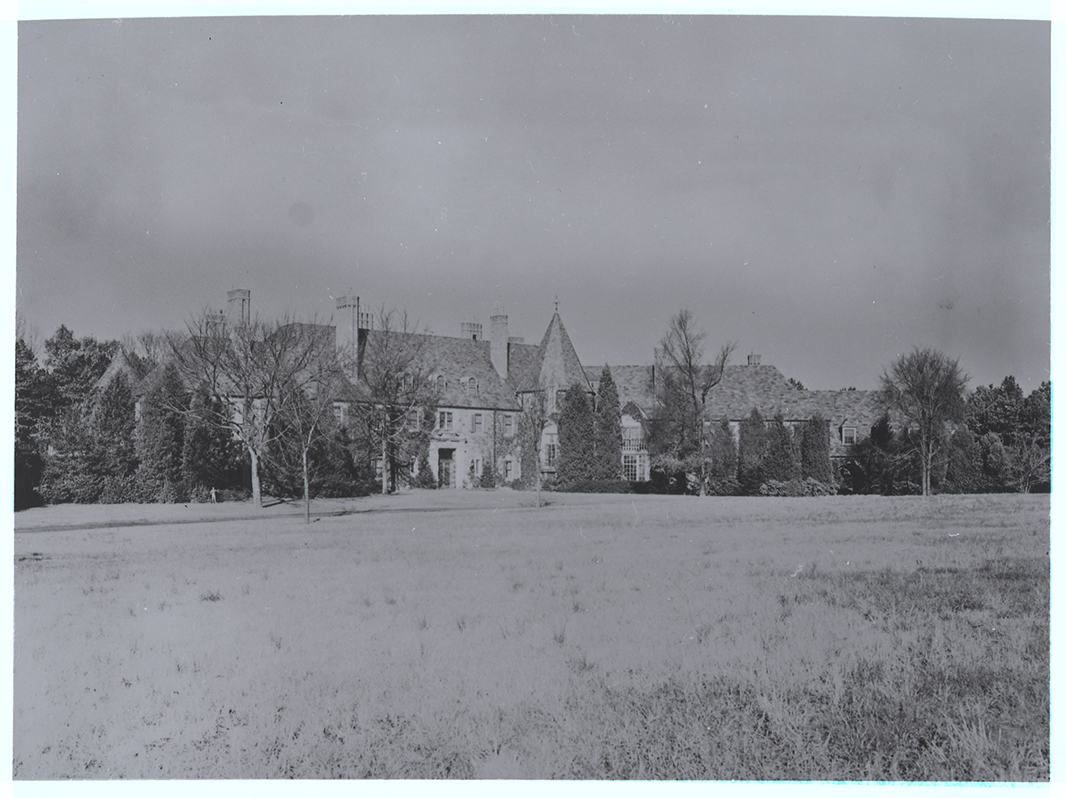 Graylyn Estate exterior ca1932